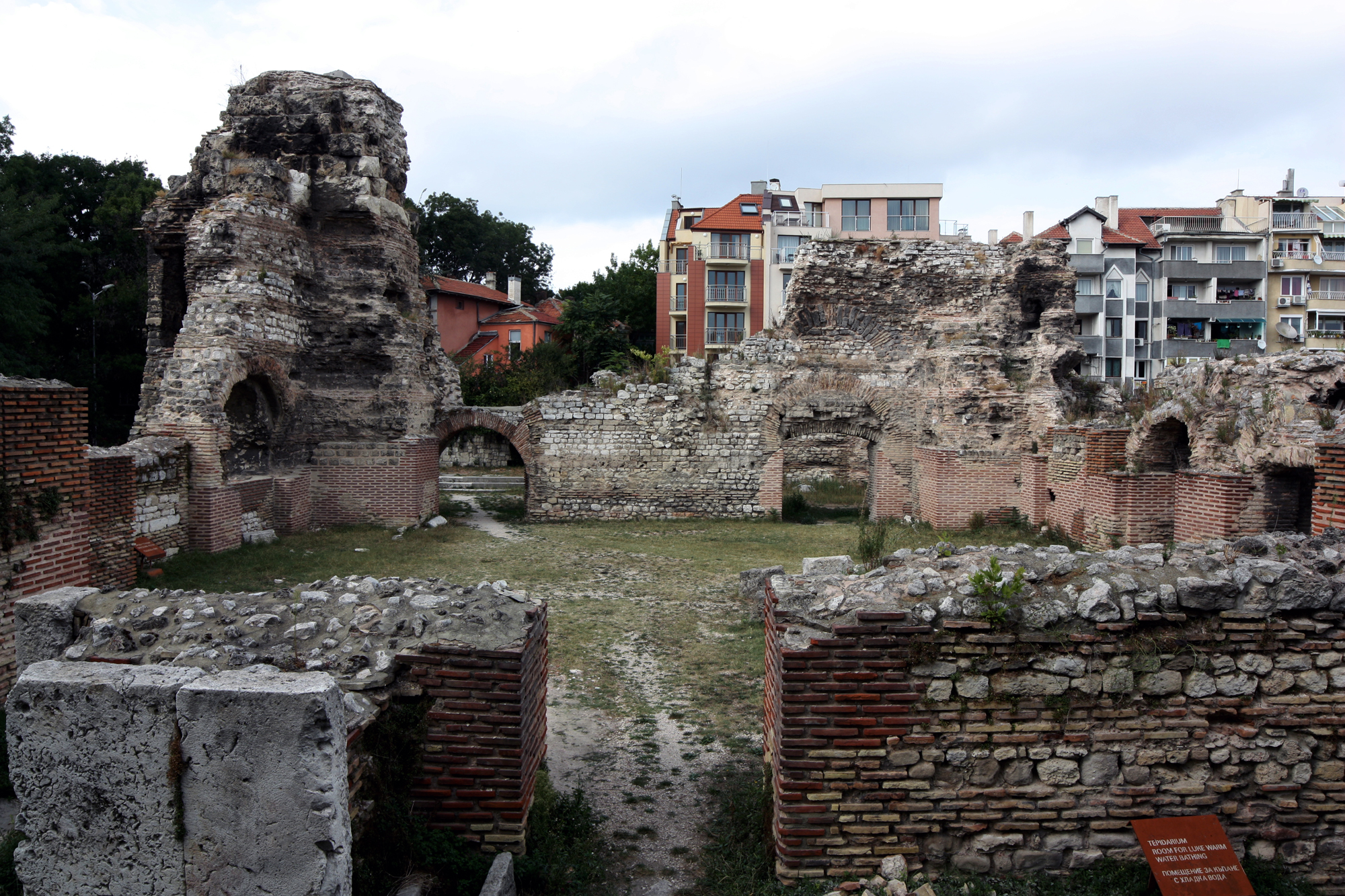 Odesos Thermae in Varna